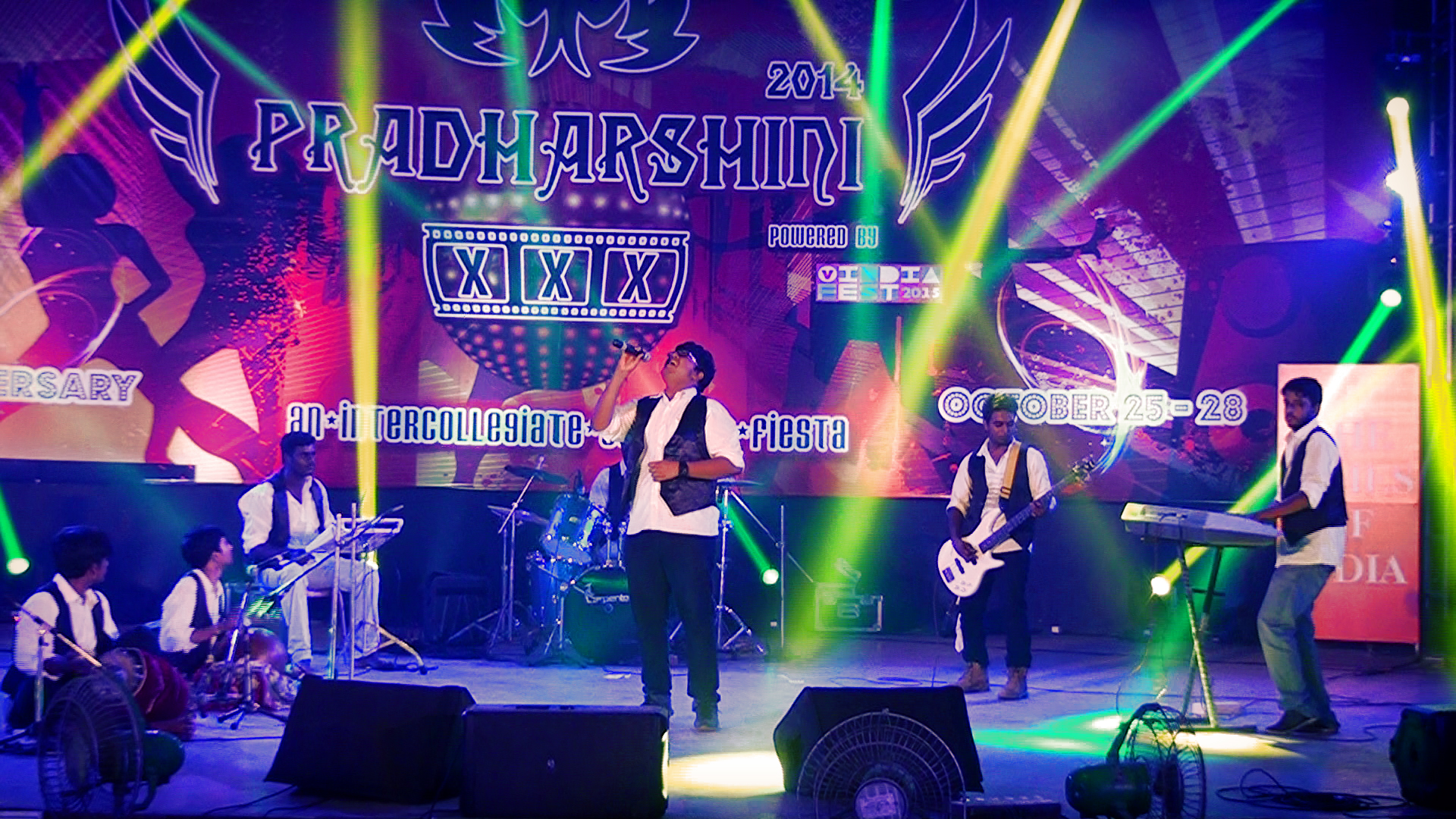 Light Music at Pradharshini 2014